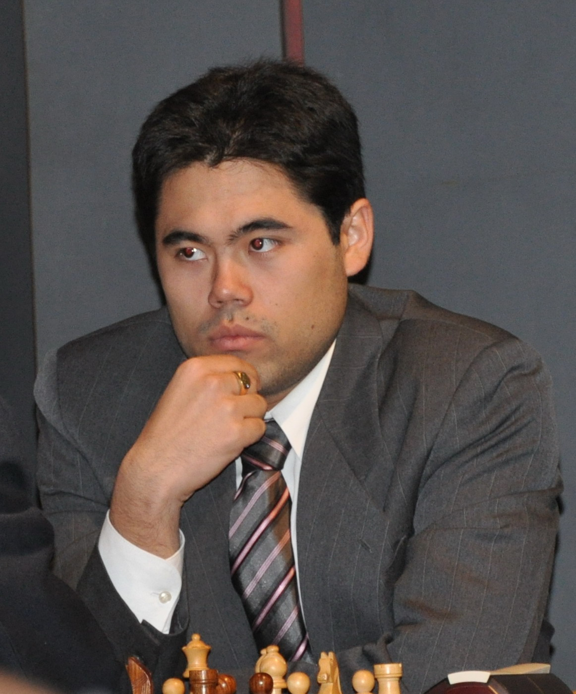 Hikaru Nakamura - London Chess Classic 2010